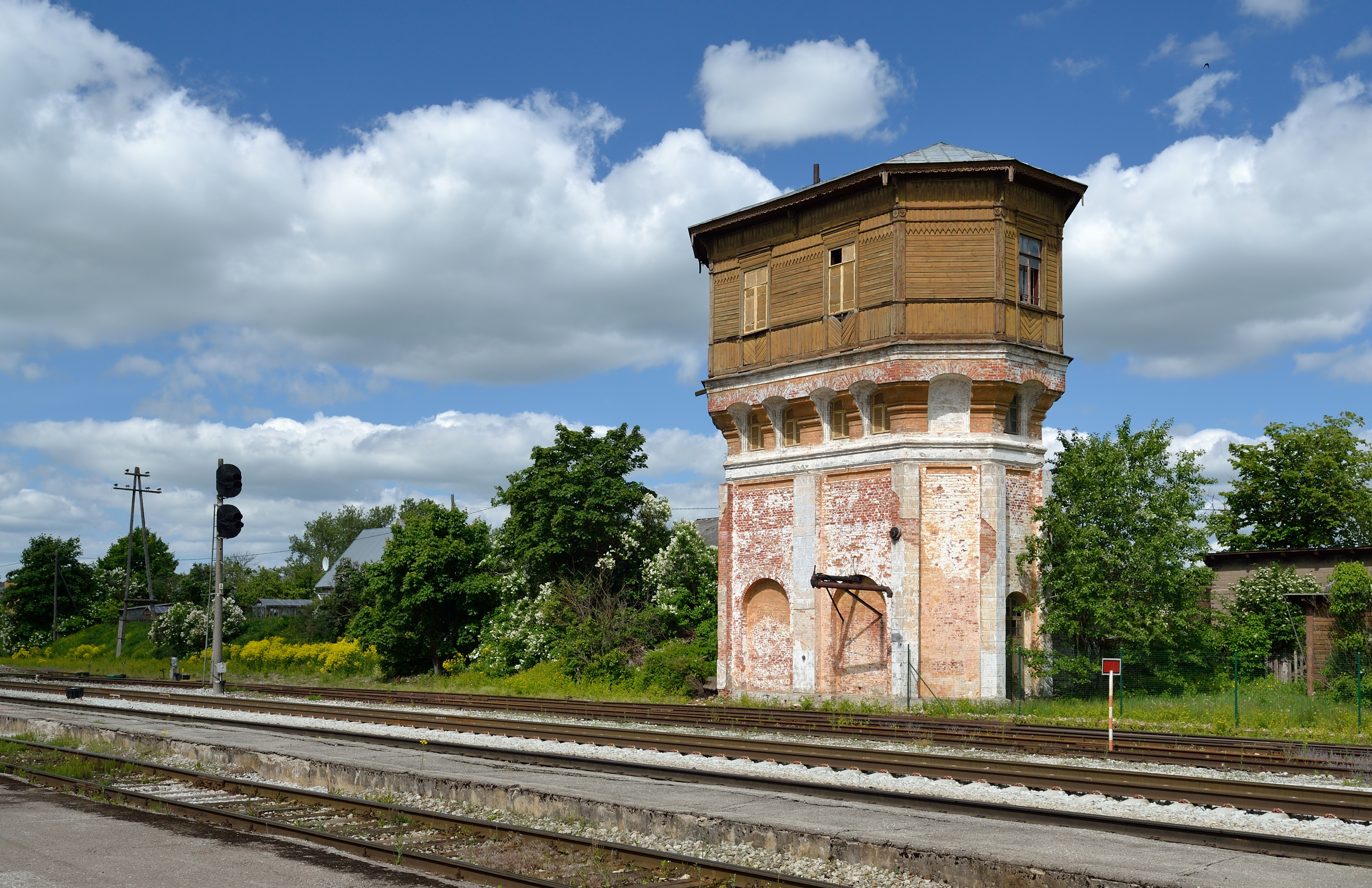 Rakvere station water tower, built in 1871.